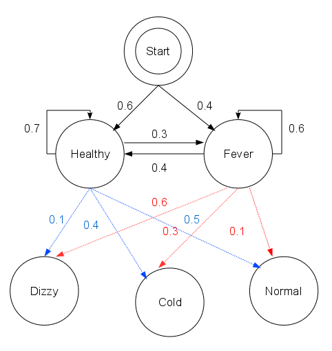 An example of HMM model